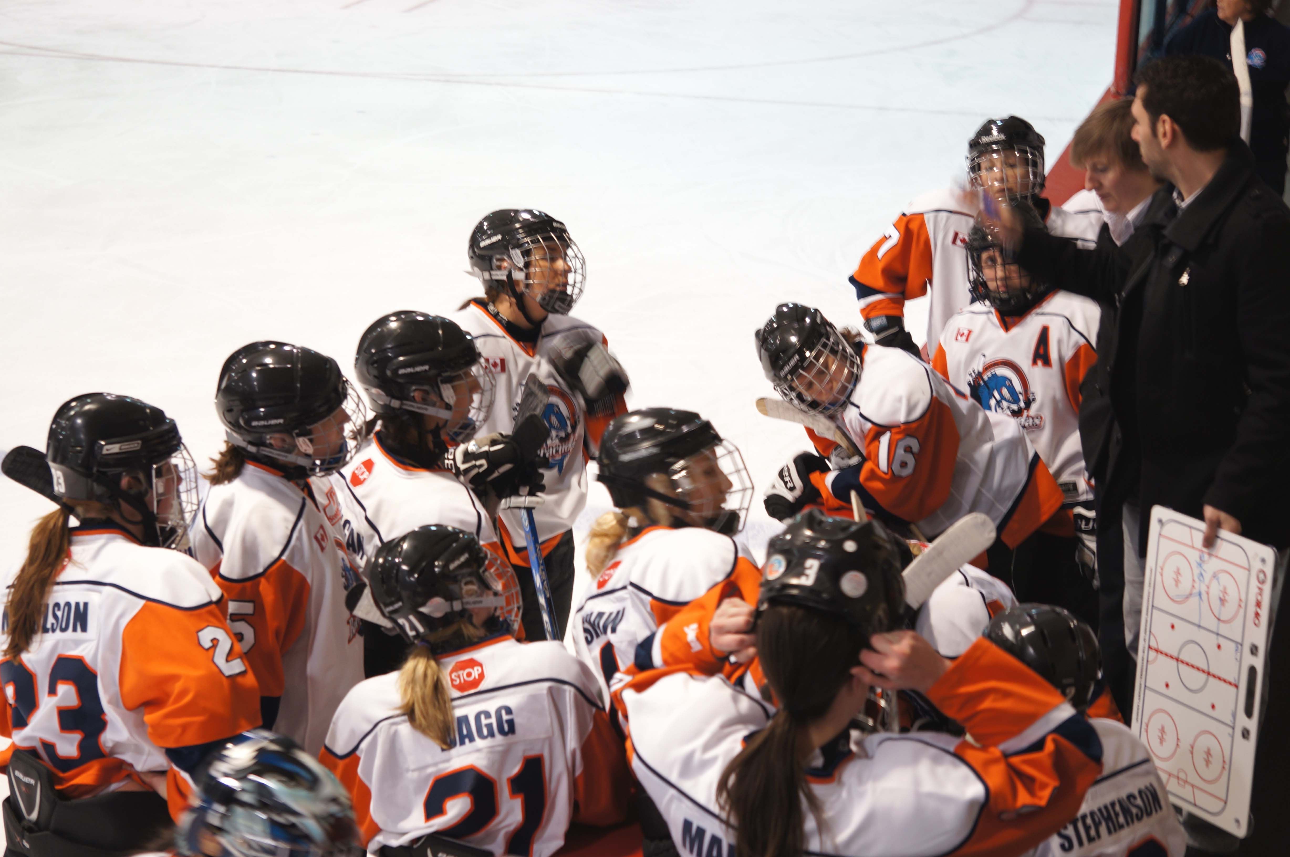 Burlington Barracudas, CWHL